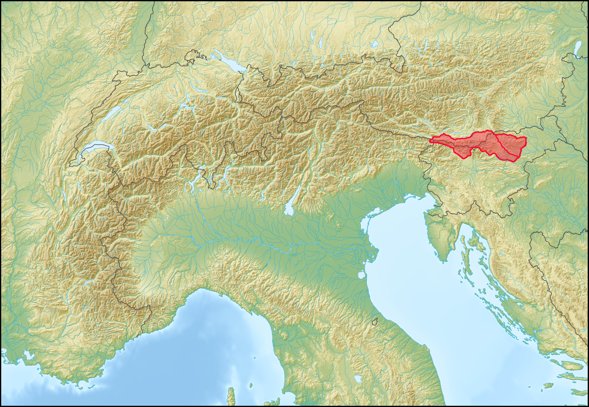 The location of the Karawanks (red, left) and Pohorje (red, right) in the Alps.